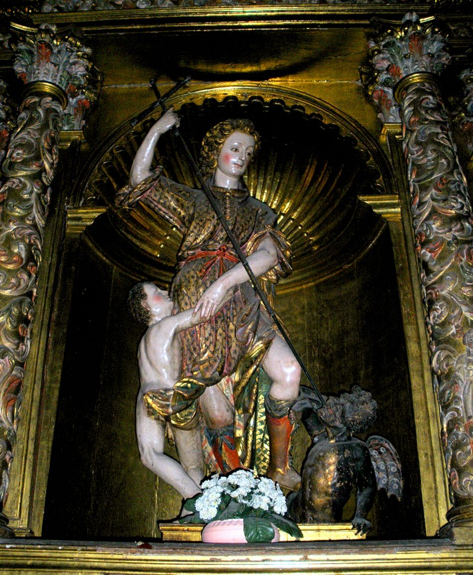 Talla de San Miguel en la iglesia de Sancti Spiritus de Salamanca.